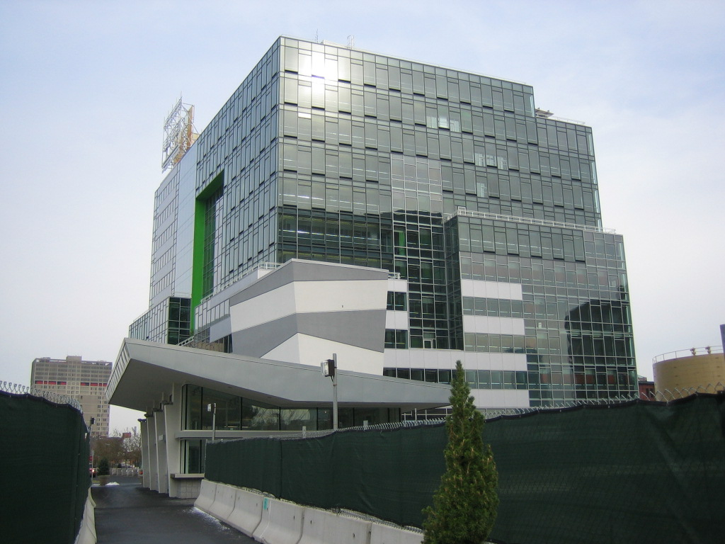 A biotech building in Cambridge, MA